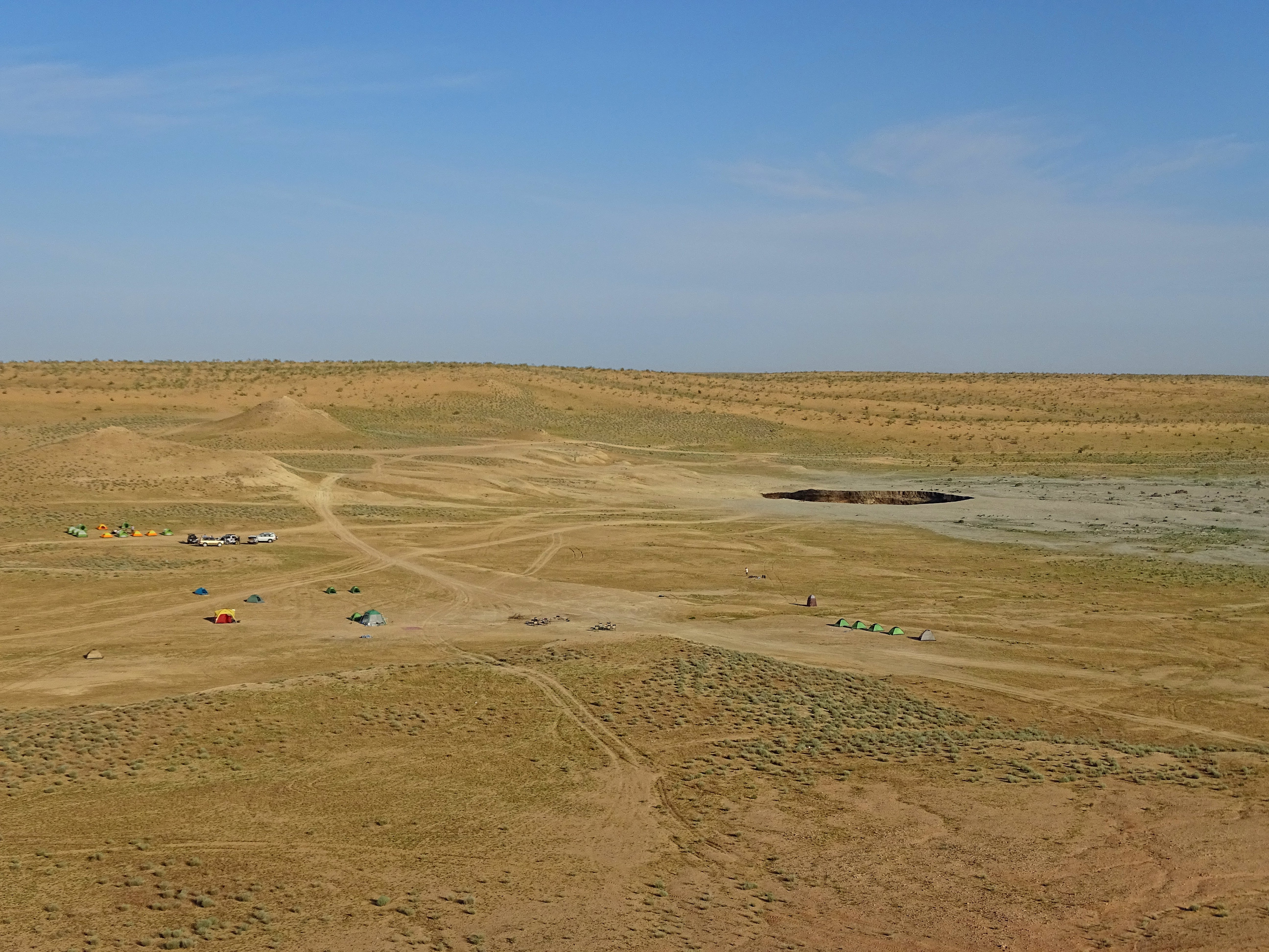 The "Door to Hell" and the surrounding areas, including where the tents usually are pitched, a couple of hundred meters away to the south of the crater.